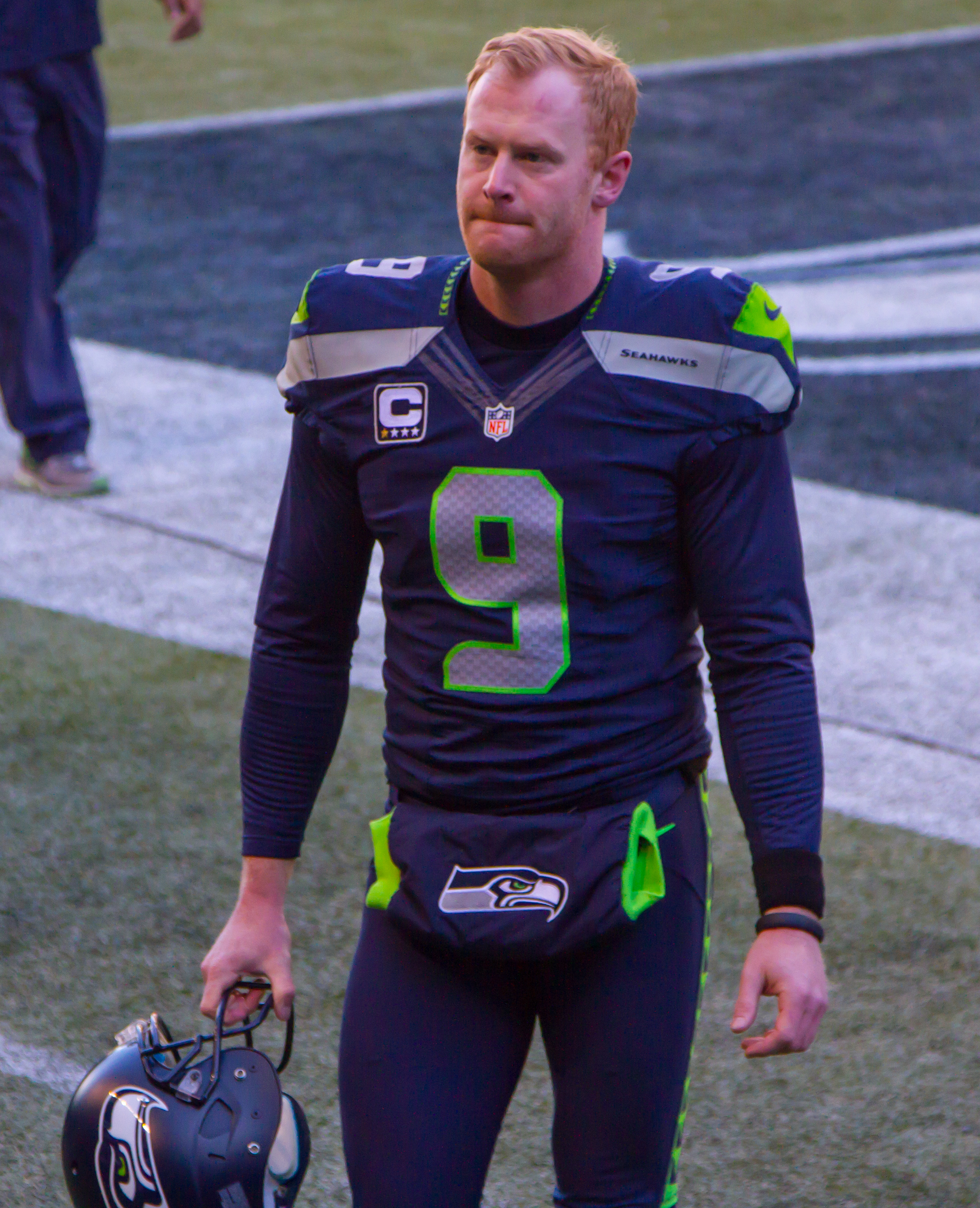 49ers at Seahawks 2014